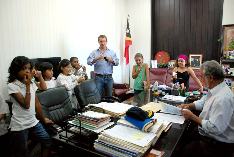 DIS - Dili International School, Timor Leste (East Timor) Students meeting with Prime Minister Mr. Xanana Gusmao in his office